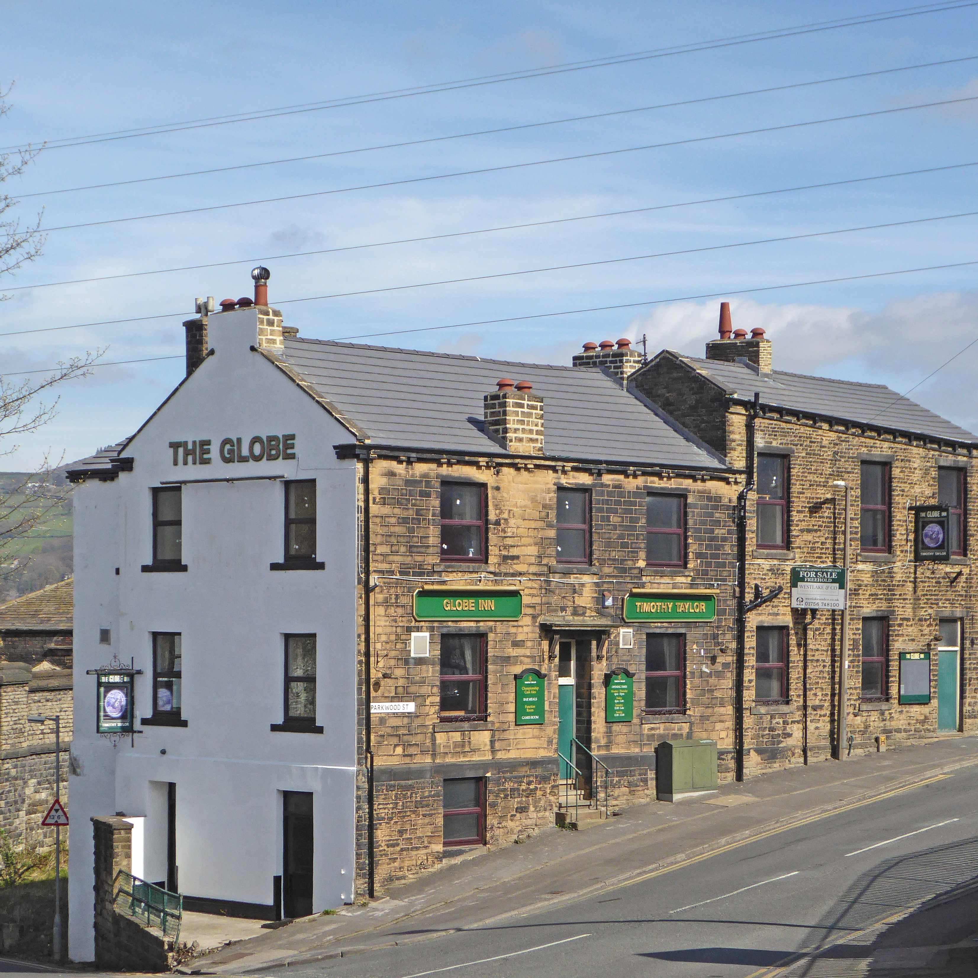 The Globe, Parkwood Street, Keighley